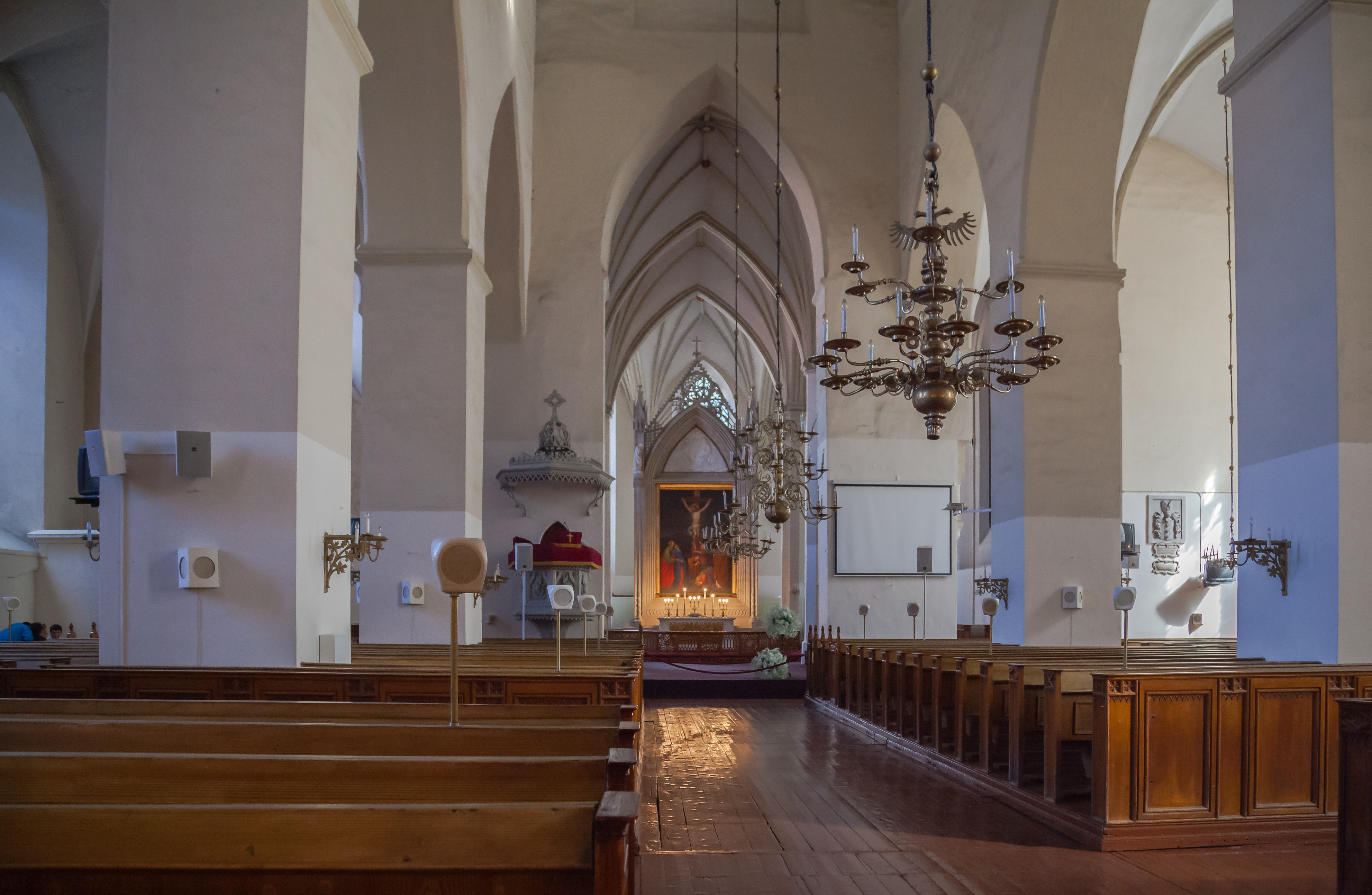 St Olaf's Church, Tallinn, Estonia